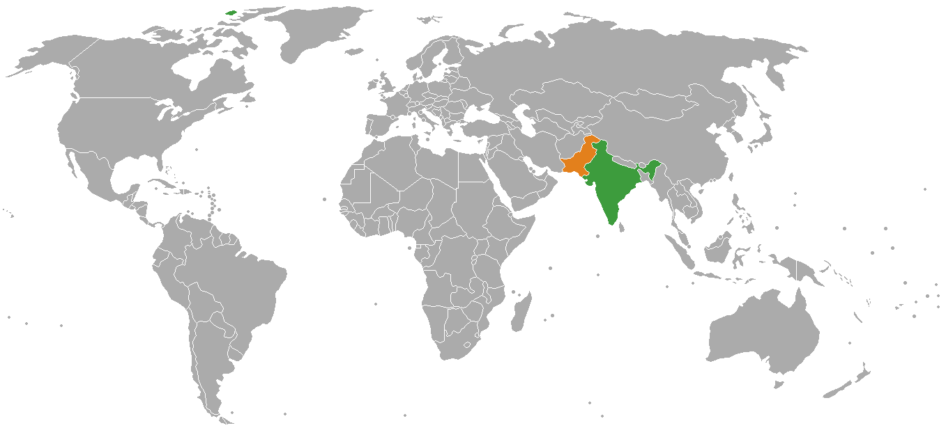 Map showing the location of India and Pakistan.